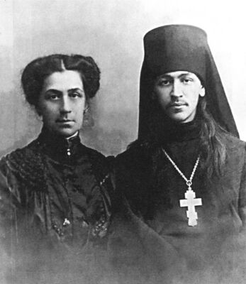 Nestor (Anisimov) with mother in 1907 (in future metropolitan of Russian Orthodox Church)